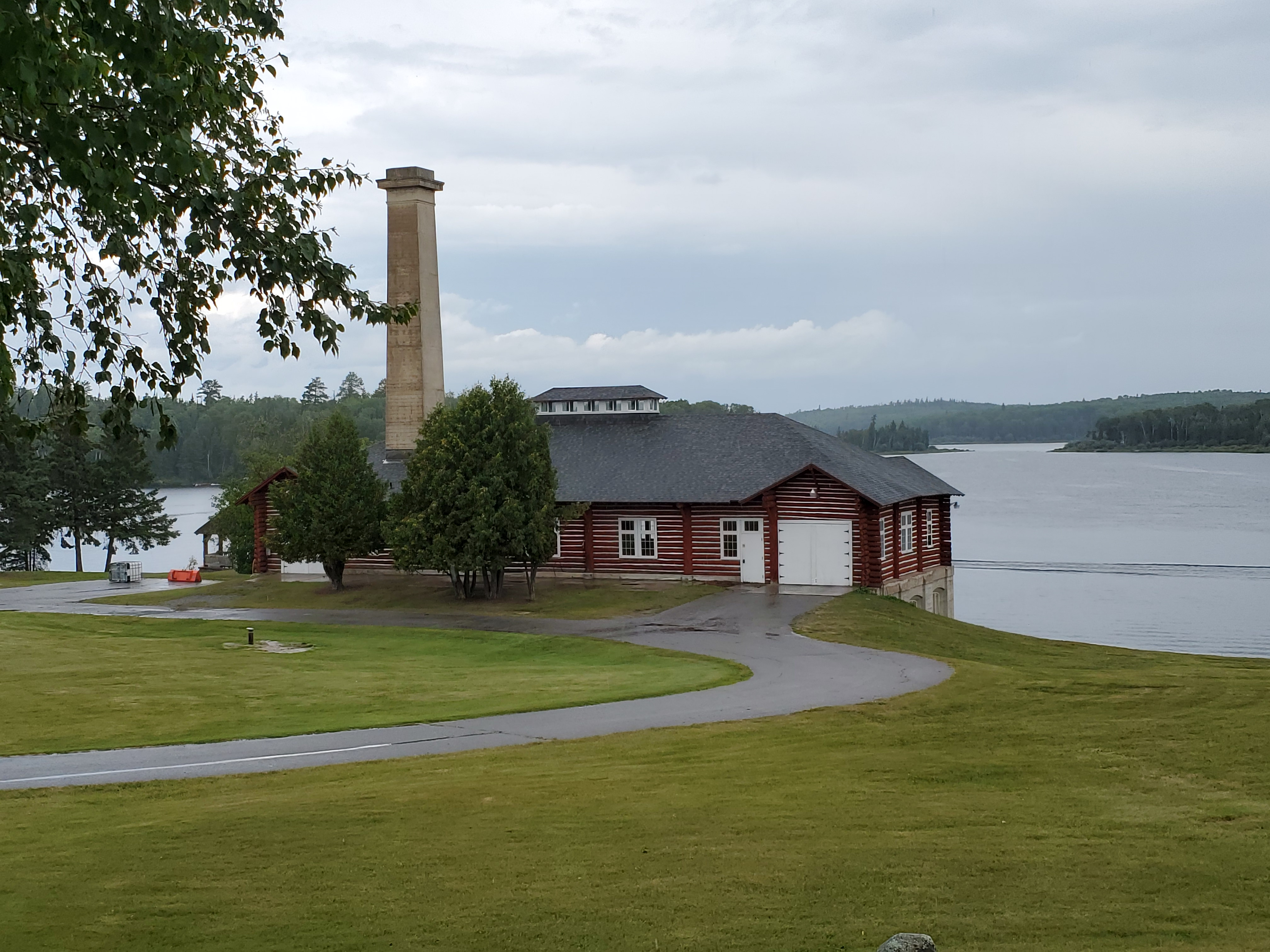 Minaki Lodge Marina building